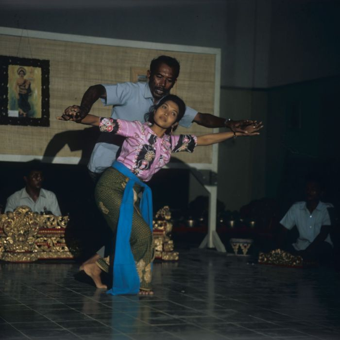 Dance school Akademi Seni Tari Indonesia (ASTI)